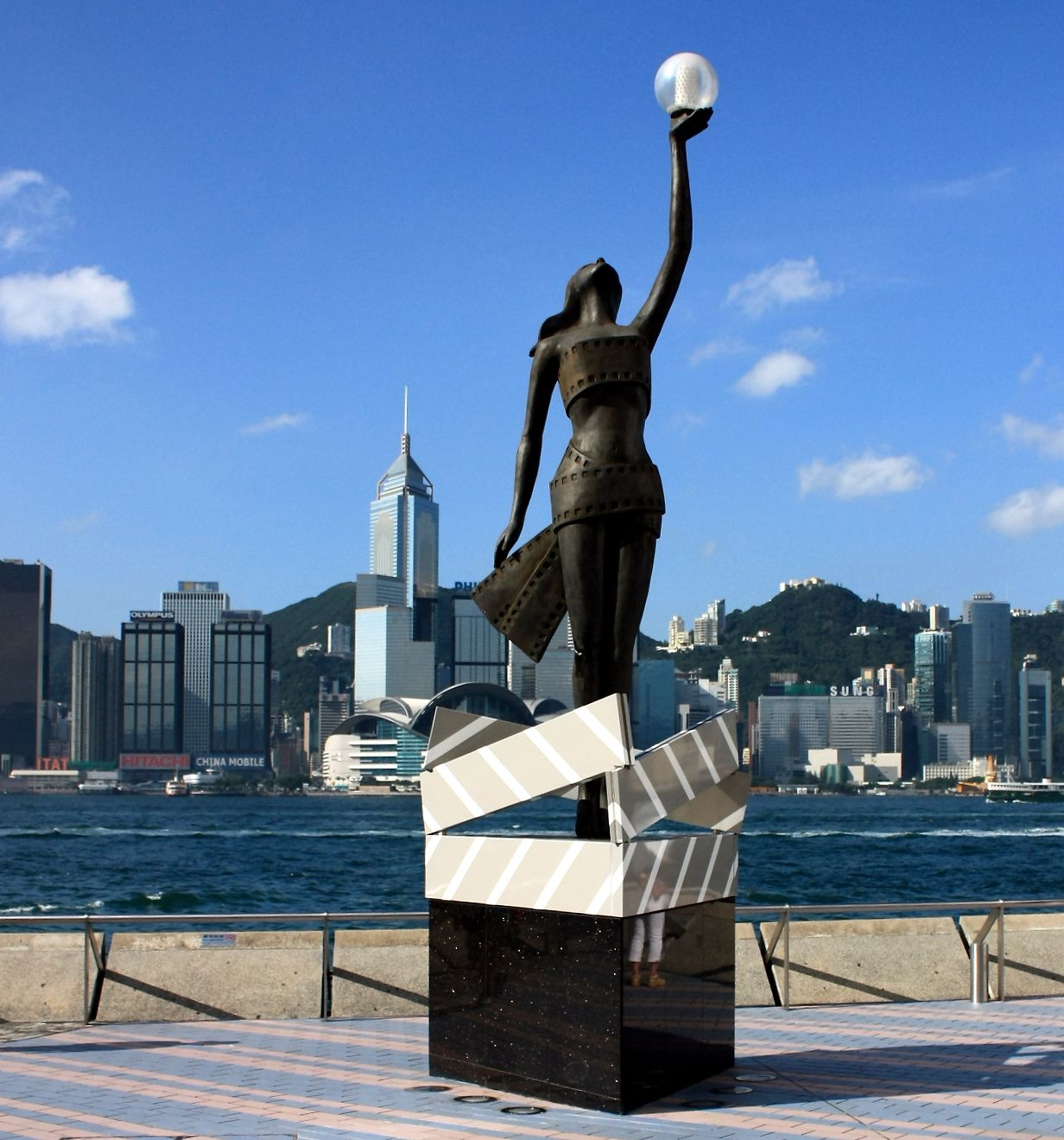 Avenue of Stars Statue 香港星光大道入口設置的香港電影金像獎巨型銅像